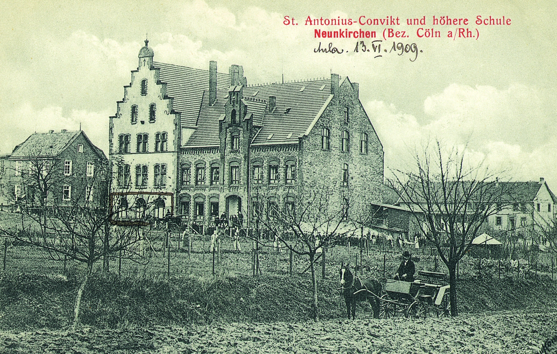 Ansichtskarte um 1909 mit Blick auf das 1906 fertiggestellte Gebäude des Antoniuskonvikts